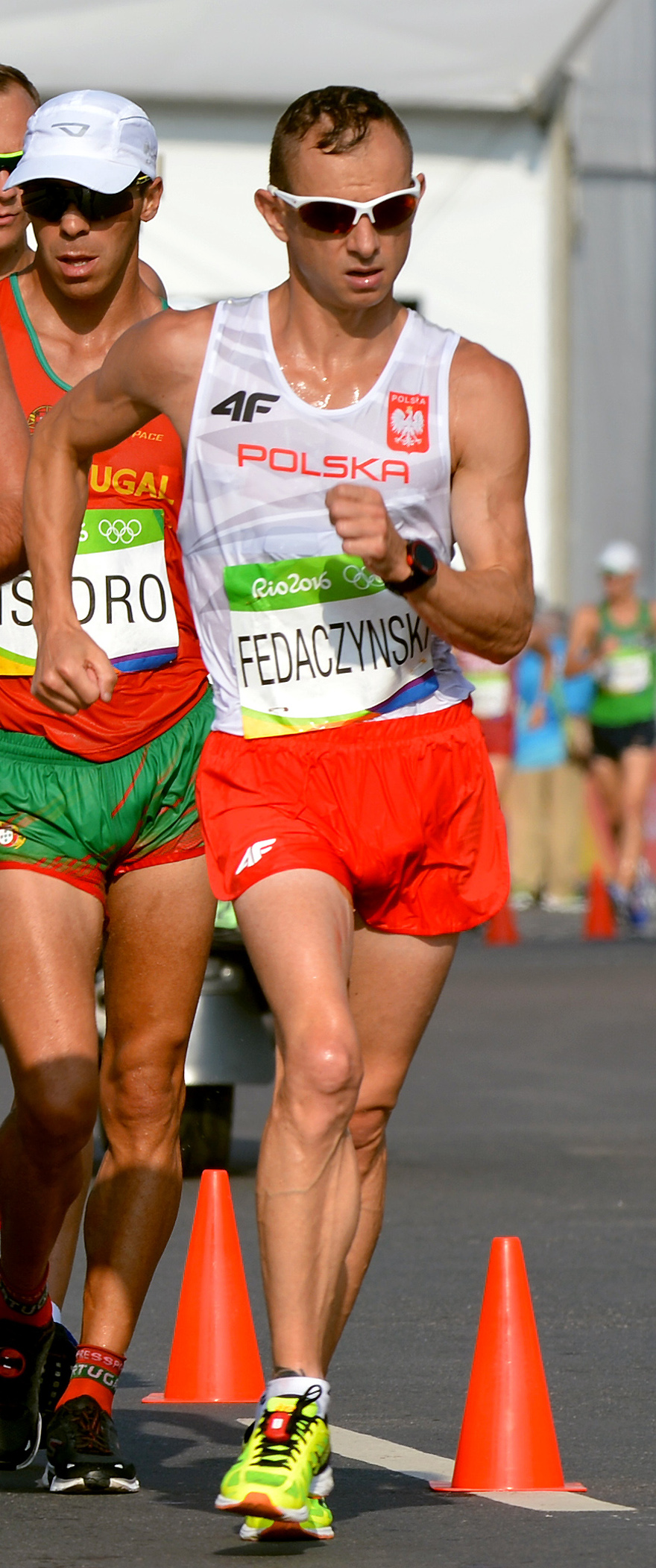 Rafał Fedaczyński in the men's 50-kilometer race walk Aug. 19 at the Rio Olympic Games in Rio de Janeiro. U.S. Army photo by Tim Hipps, IMCOM Public Affairs #SoldierOlympians #ArmyOlympians #ArmyTeam #GoArmy #ArmyStrong #TeamUSA #RoadToRio #Olympics